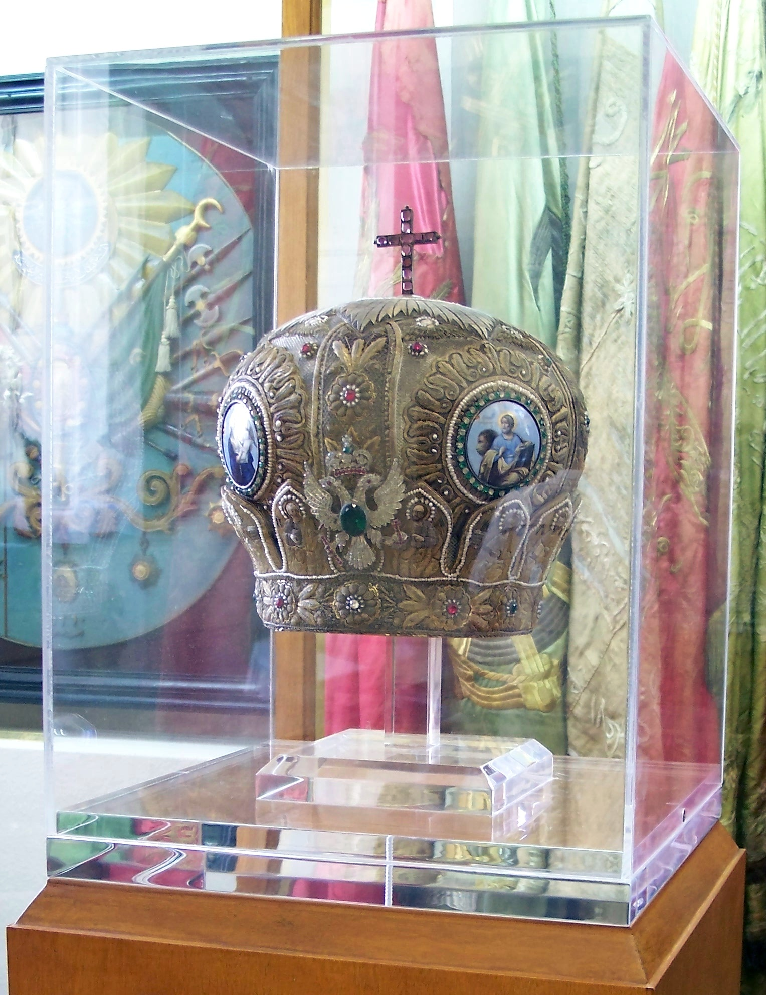 The Mitre of Orthodox Metropolitan Chrysostomos of Smyrna, who was murdered when the Turks captured the city in 1922. National Historical Museum, Athens, Greece.